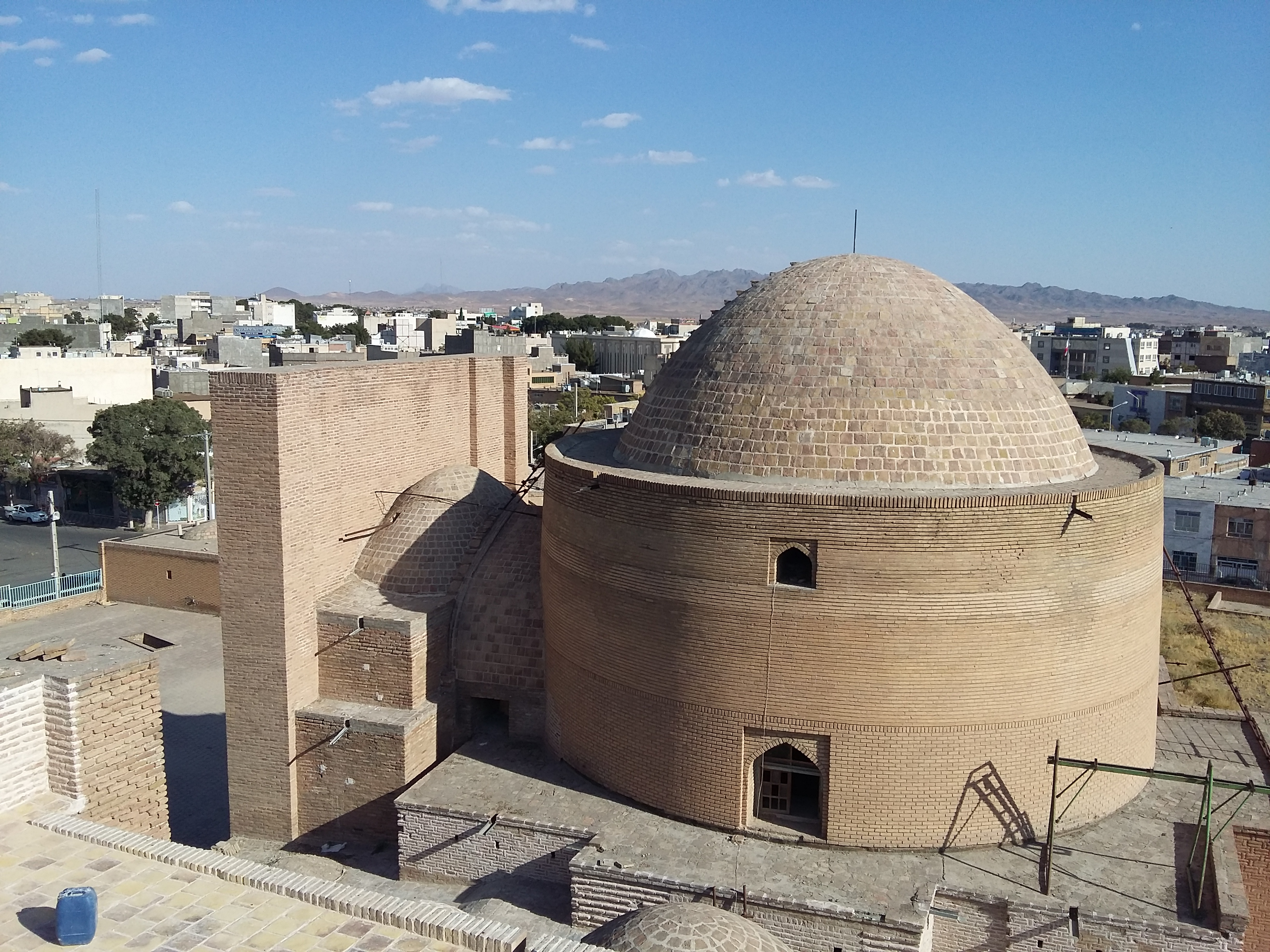 The tomb of Qutb al-Din Haider